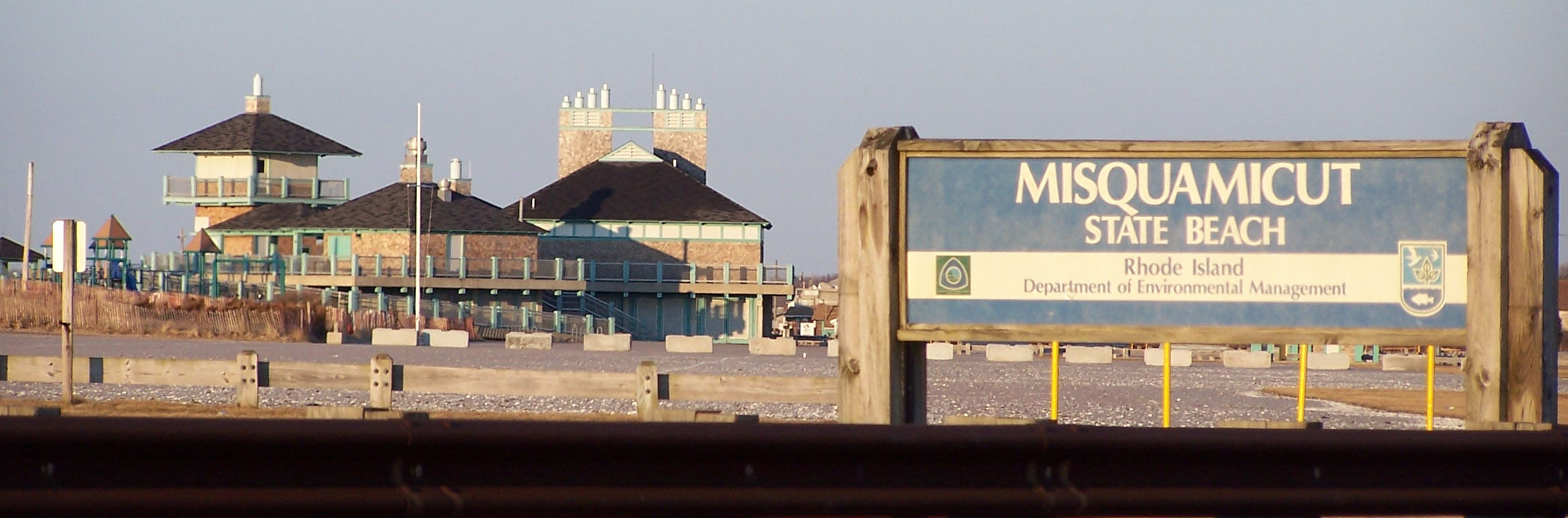 A photograph of the beautiful Misquamicut State Beach in March 2007. Photo taken by Mark Siciliano.